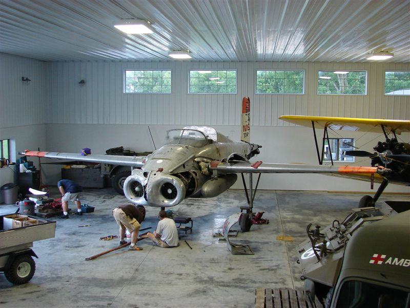 An X-14 undergoing renovation by a private collector in western Indiana.